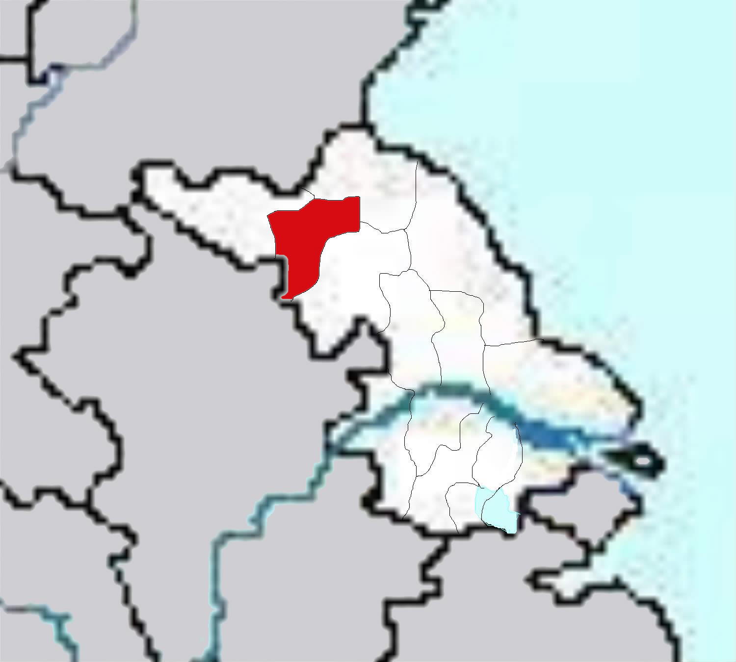 Maps of Jiangsu Province , China